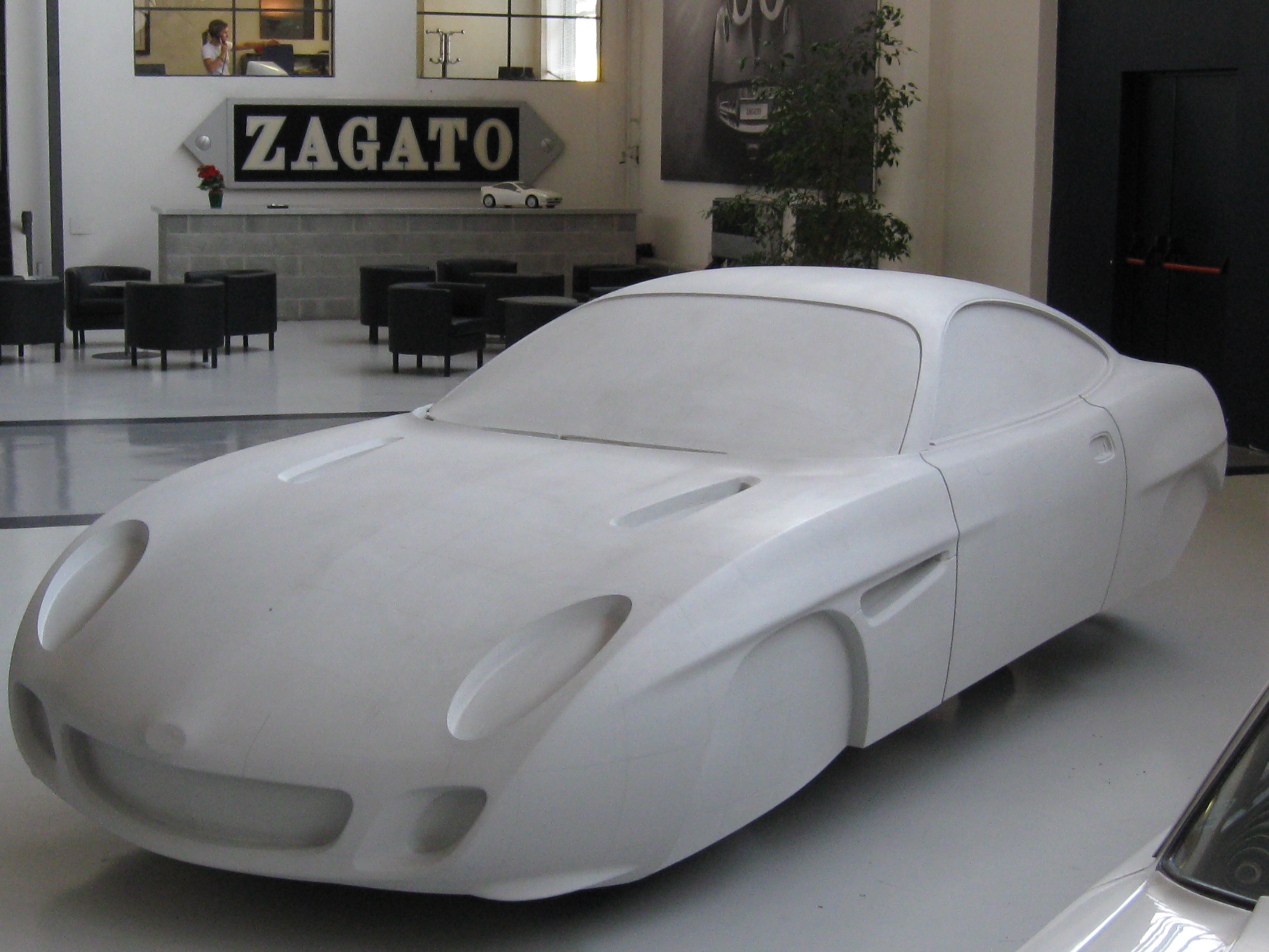 A full size "clay" styling mock up at the Zagato Design studio near Milan Italy